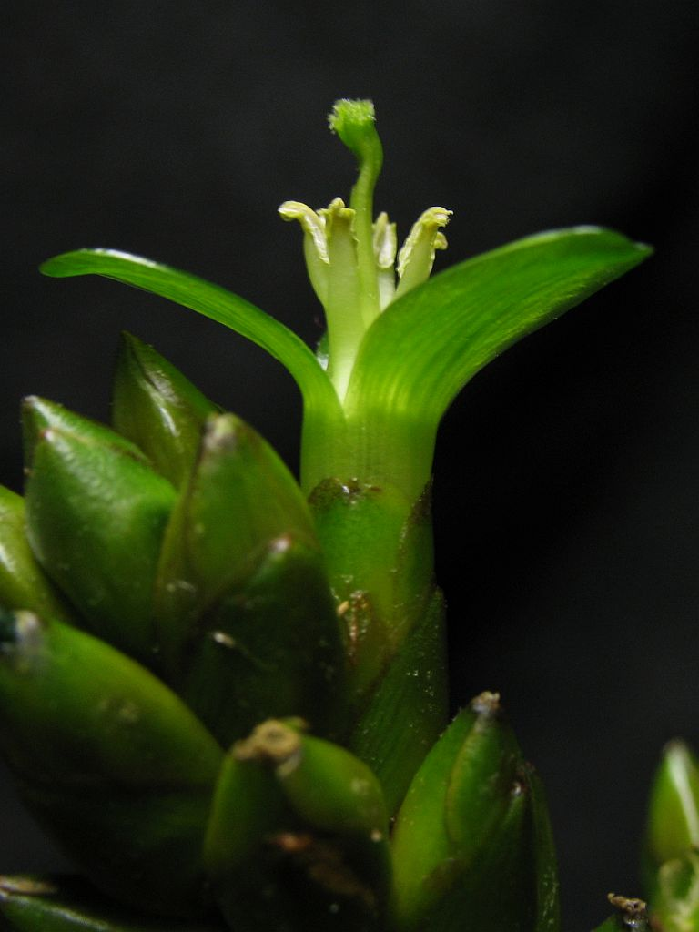 Guzmania alliodora, in cultivation at the Botanical Garden of Heidelberg, Germany. Flowers fully opened after midnight.